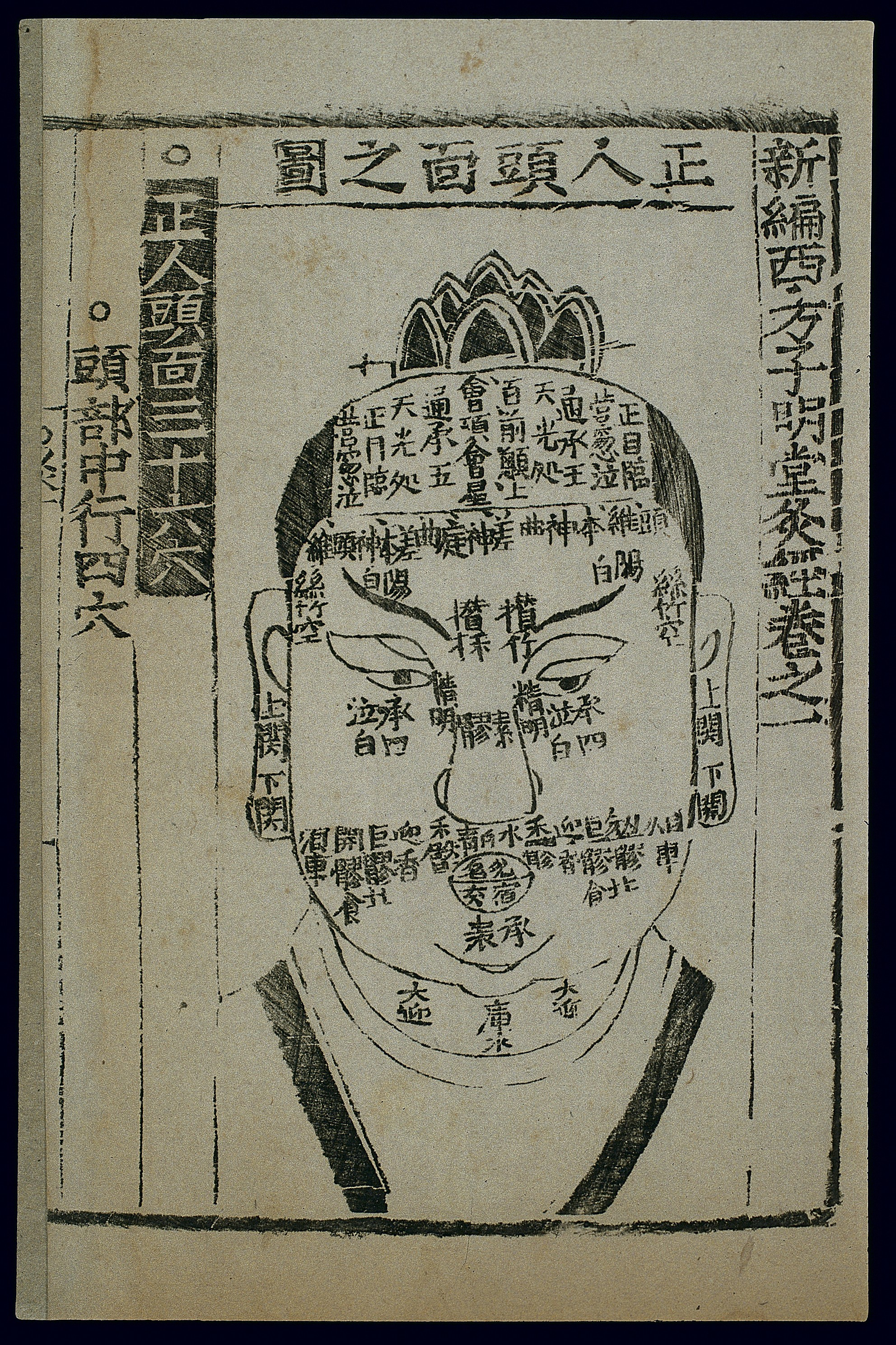 This text was composed in the Yuan period (1206-1368). The illustration shown here is taken from an edition of 1515 (10th year of the Zhengde reign period of the Ming dynasty). It depicts a man's head from the front view. His hair is fastened in a lotus-shaped bun on the top of his head. The hair and the collar of his clothing are shown in solid black; the rest of the head is sketched in ink and brush style. The names of the acu-moxa locations are inscribed in two-character columns in the corresponding locations on the face and head. (See 'Lettering' for list of point names). Wellcome Images Keywords: Ming period (1368-1644); Medicine, Chinese Traditional; Moxibustion; Yuan period (1206-1368); Ming Dynasty